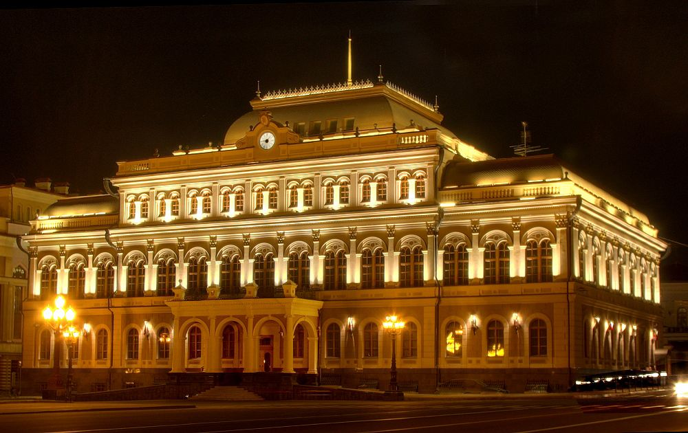 Town hall of Kazan city, built in 1854